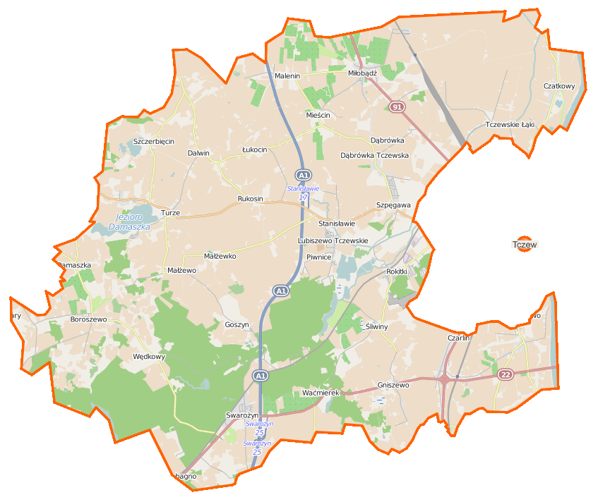 Map of Gmina Tczew, Poland This map of Tczew (gmina wiejska) was created from OpenStreetMap project data, collected by the community. This map may be incomplete, and may contain errors. Don't rely solely on it for navigation.